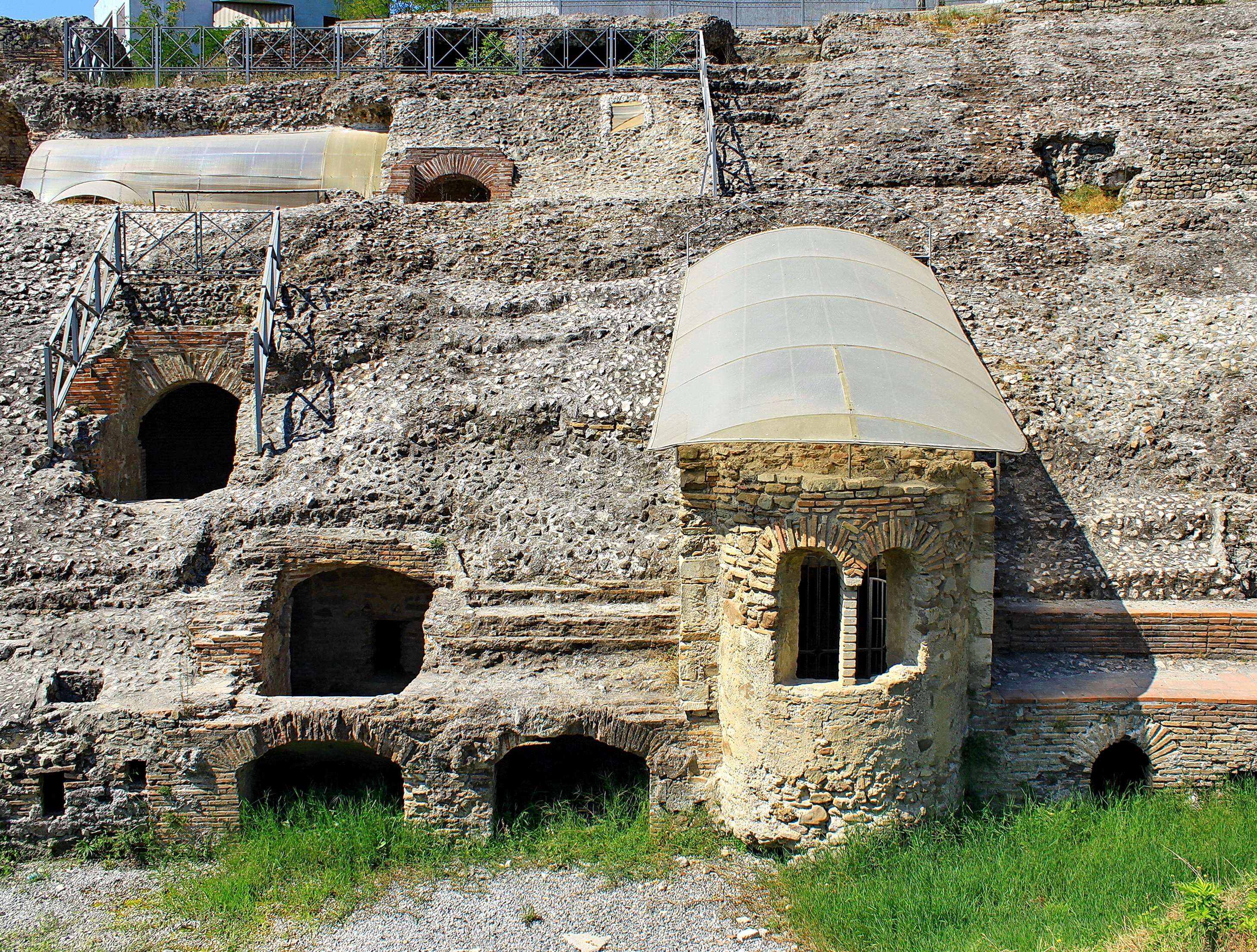 Durrës AmphitheatreShqip: Amfiteatri i Durrësit